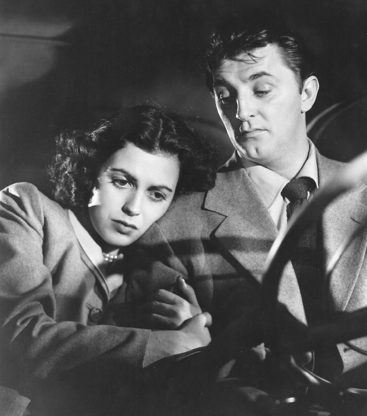 Where Danger Lives publicity photo